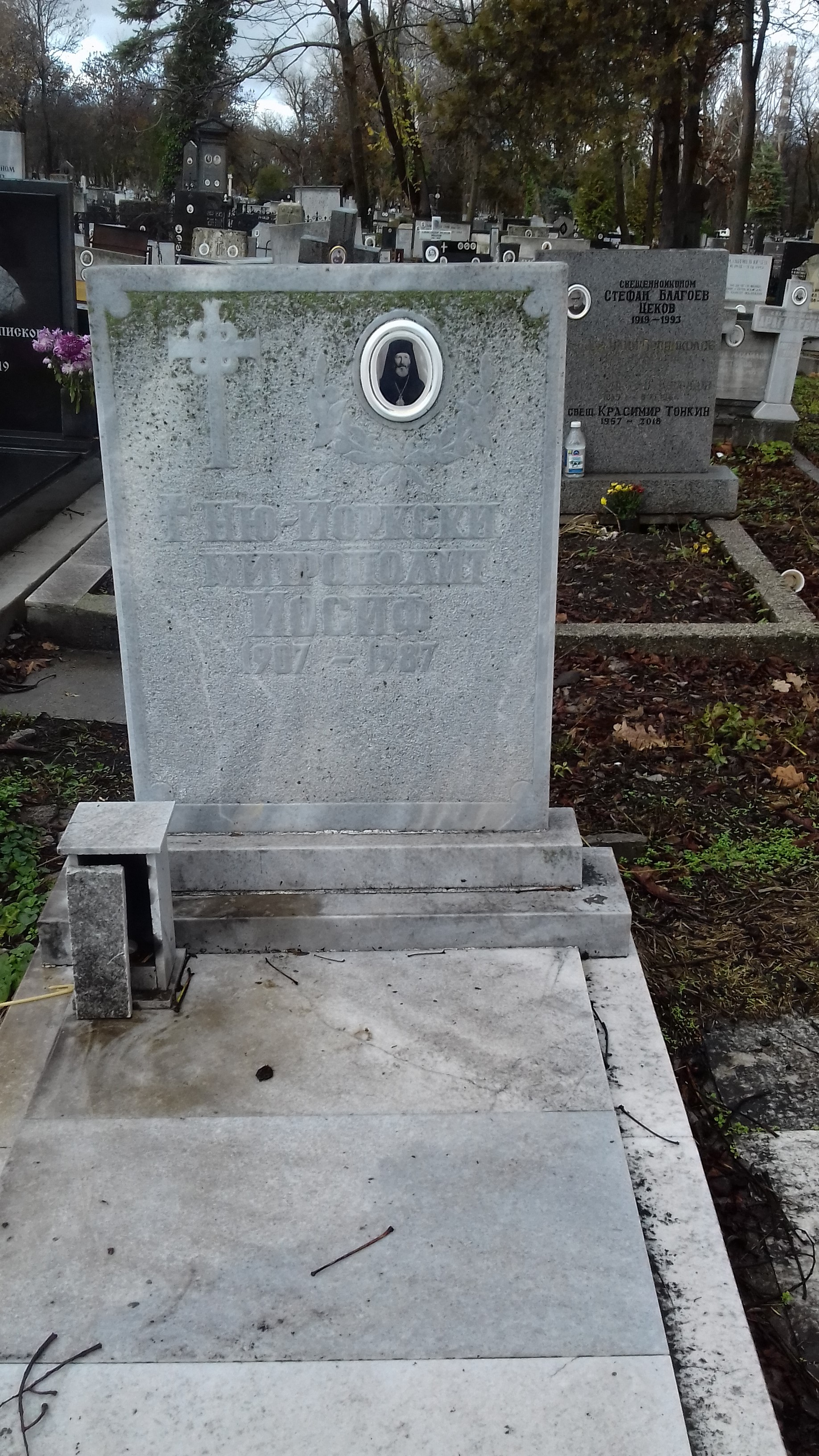 Joseph of New York Grave